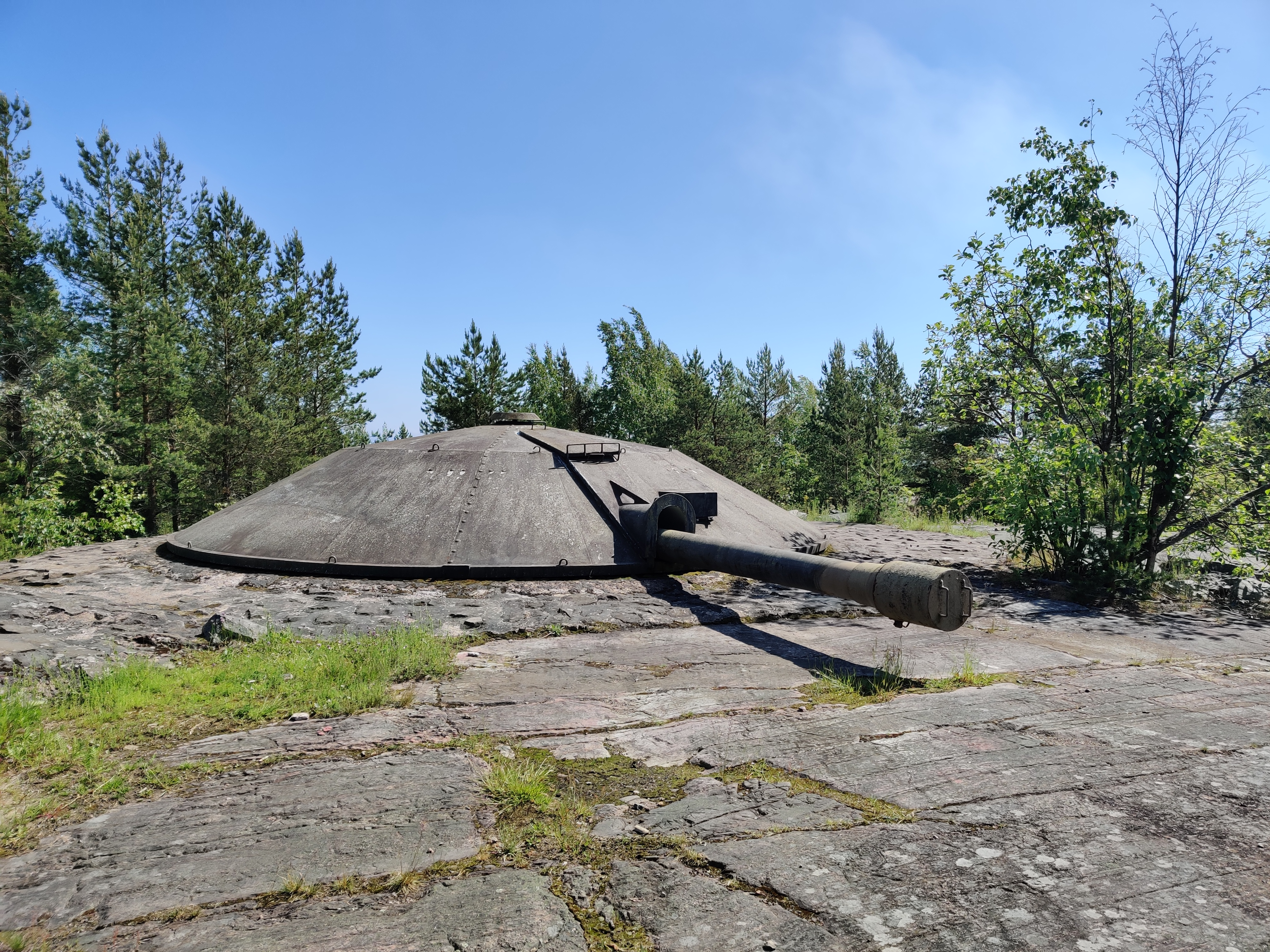 Finnish 152/50 cannon in Isosaari